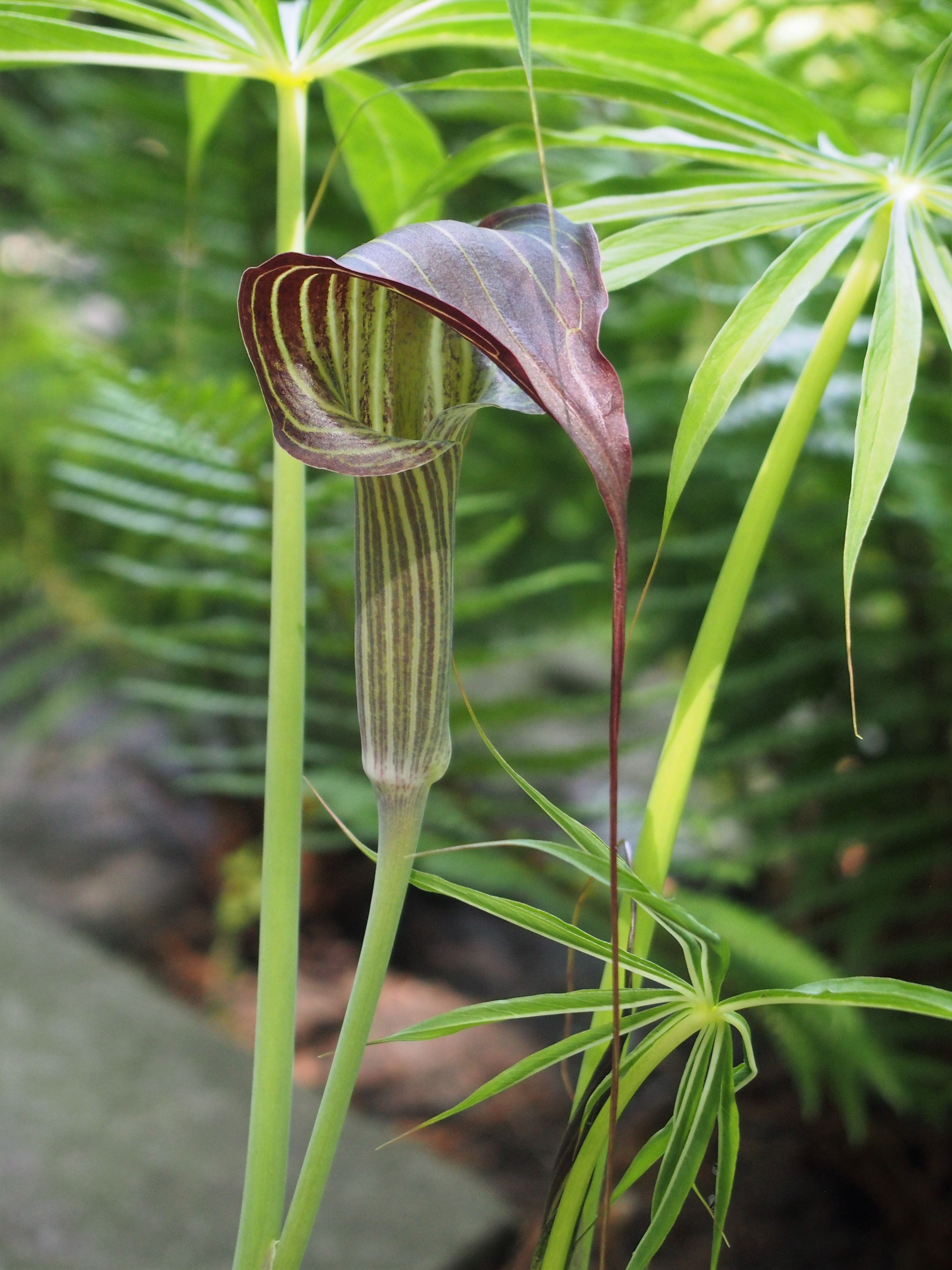 Arisaema erubescens flowering plant, cultivated in Wrocław University Botanical Garden, Wrocław, Poland.